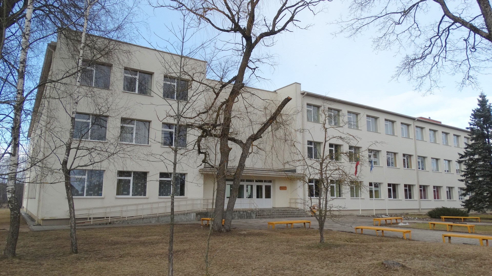 Basic school, Salakas, Zarasai district, Lithuania